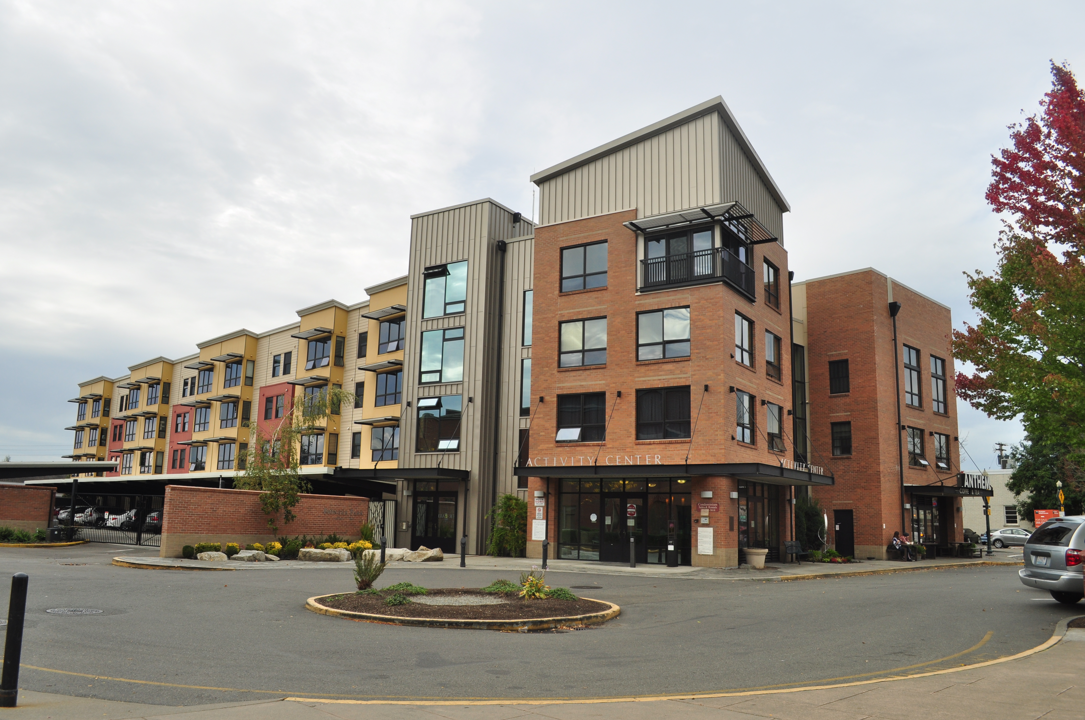 Pioneer Park Condominiums, Puyallup, Washington.